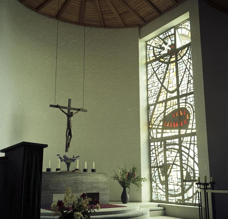 Kiel: Evangelische Kirche in Kiel-Schulensee Information added by Wikimedia users.Altar, Crucifix and Pentecost window by Siegfried Assmann